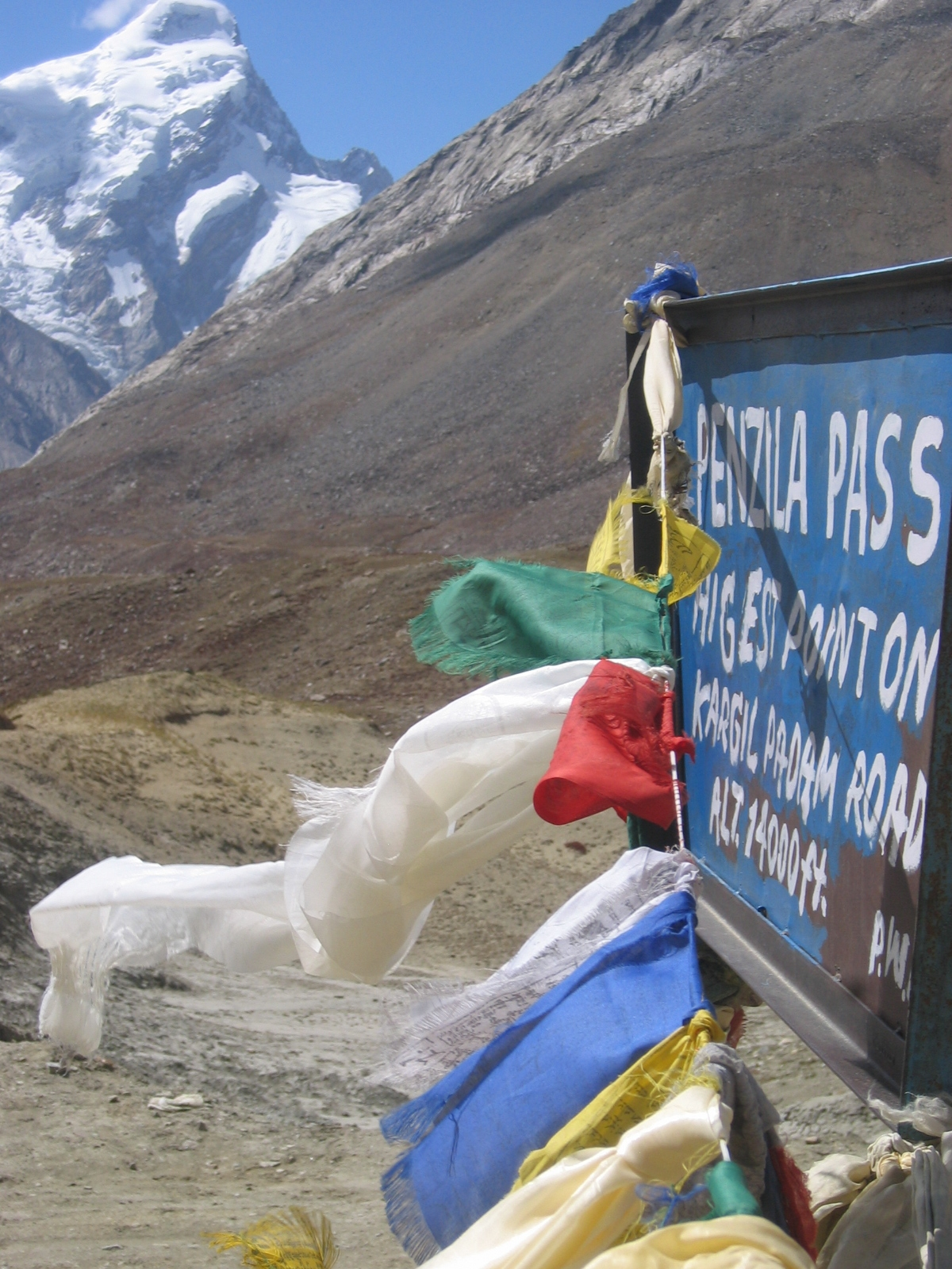 Buddhist prayer flags mark the top of the Penzi La (Pensi La) pass.